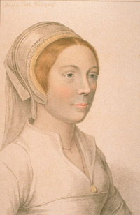 Unknown woman engraved as Catherine Howard, fifth wife of King Henry VIII.